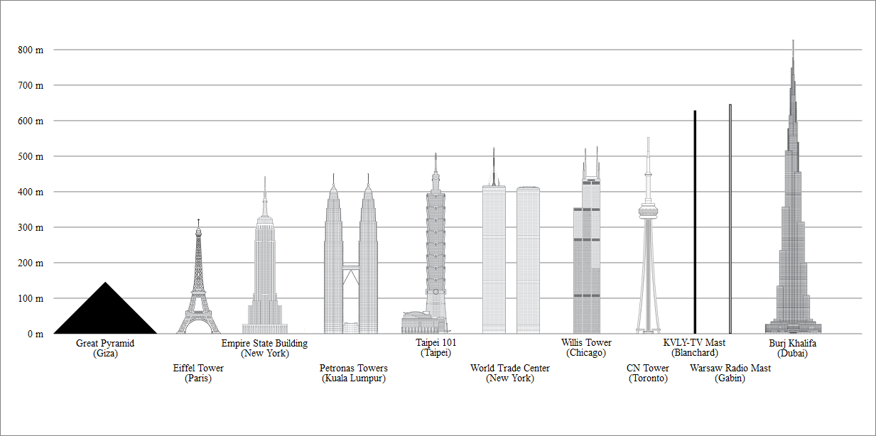 Diagram comparing the height of Burj Khalifa to other buildings and structures, based on the drawings from and All rights reserved.